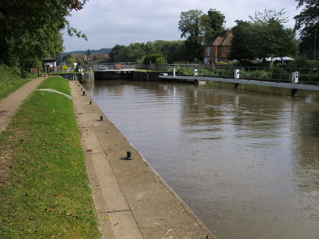 Temple Lock The Thames Path at Temple Lock